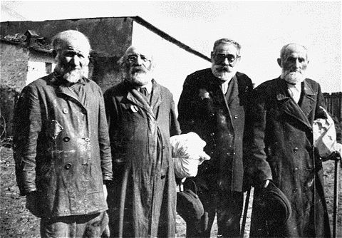 Four elderly Jews pose outside in the Zychlin ghetto with their hats removed.